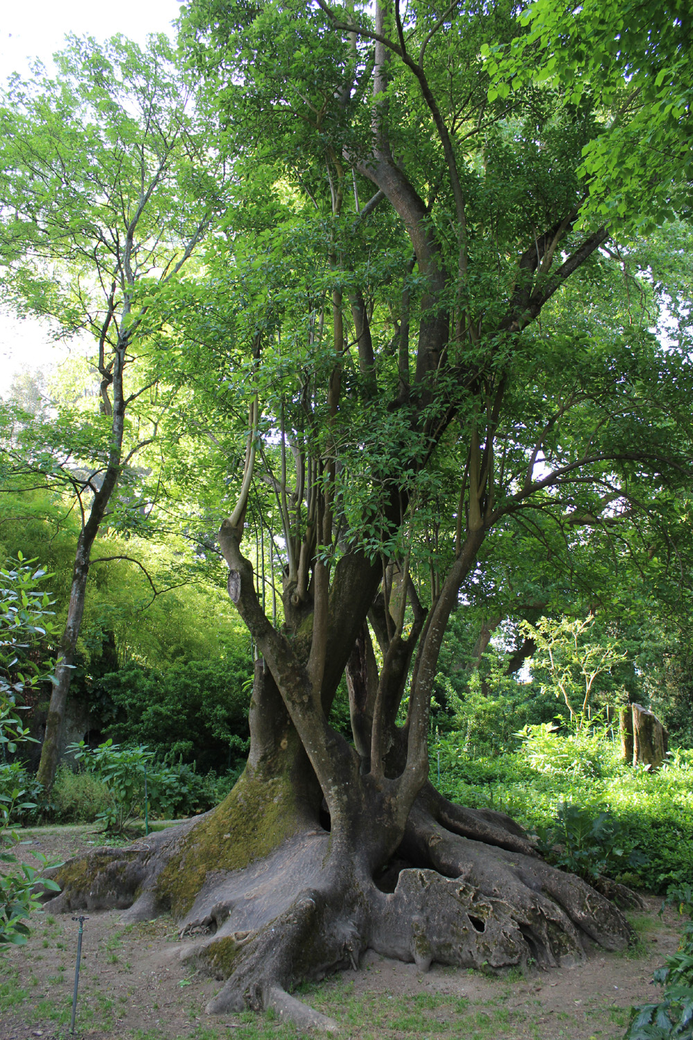 Monteiro-Mor Botanical Park, National Museum of Costume and Fashion